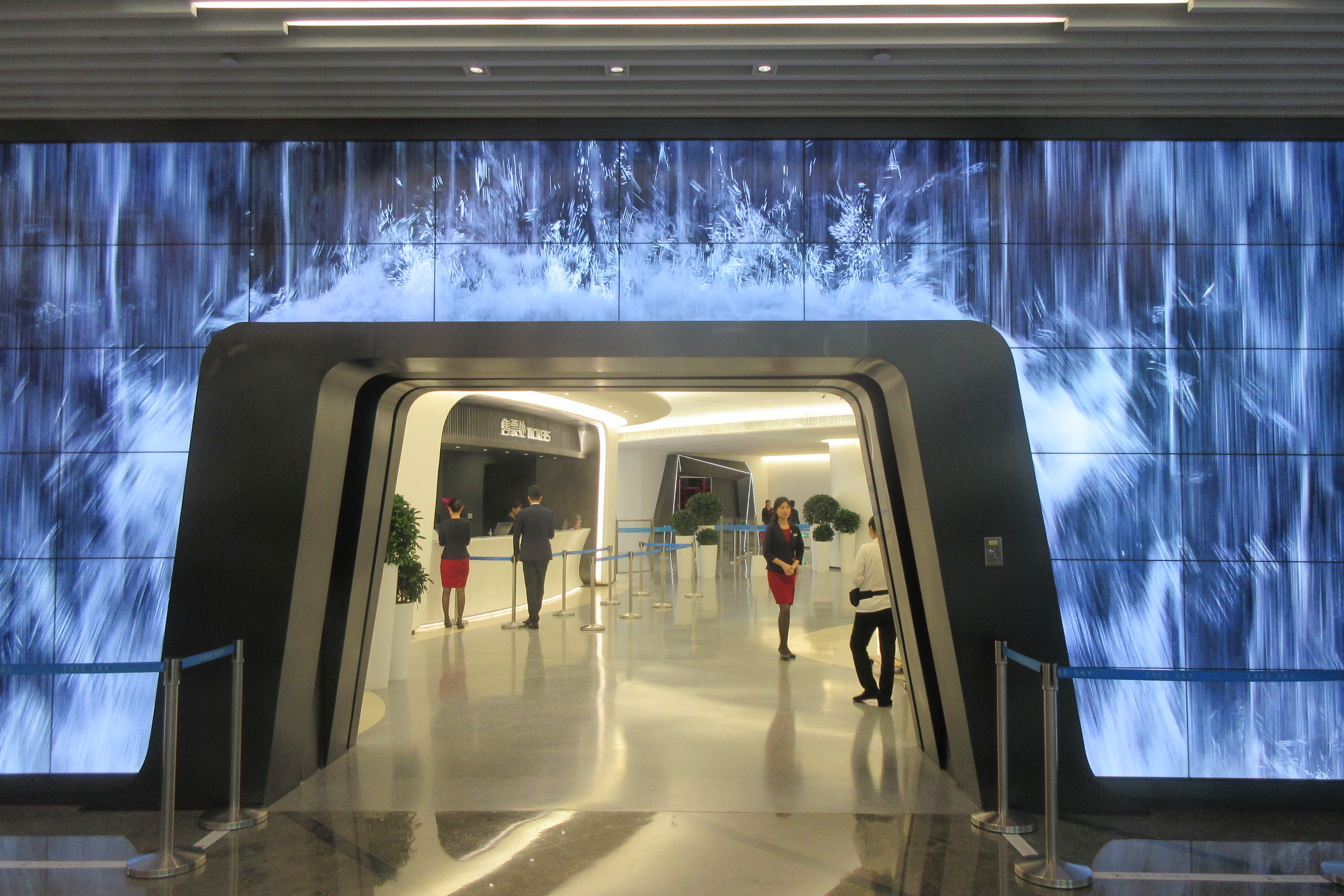 SZ 深圳市 Shenzhen 福田區 Futian 平安金融中心 FAFC 雲際觀光層 FreeSky box office April 2019